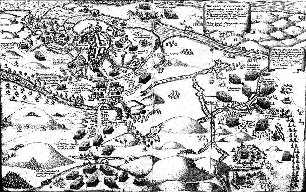 The Siege and Battle of Kinsale, 1601. The Lord Deputy's Camp is in the centre left of the image (Pacata Hibernia, 1633)